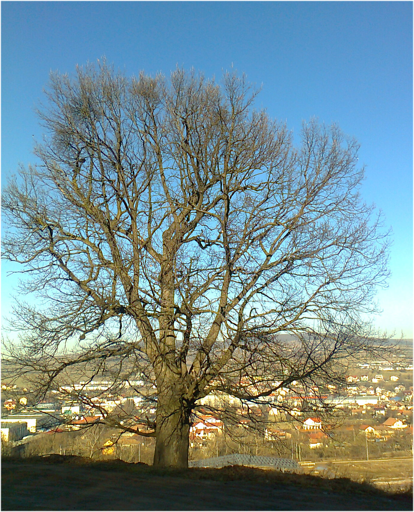 View of west-nord Cluj from Hoia